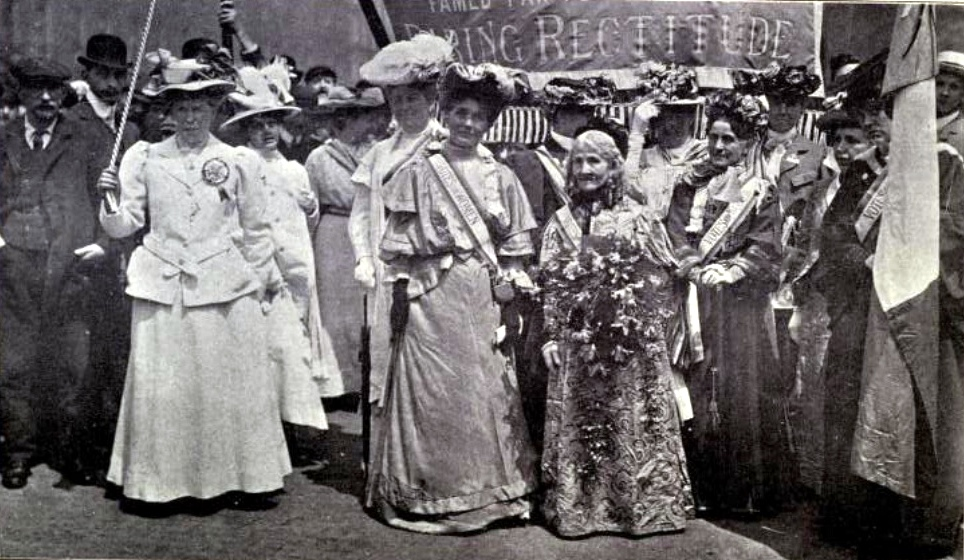 Head of the procession, Women's Sunday (suffragette march), Hyde Park, London, 21 June 1908. At the front: Emmeline Pankhurst and Elizabeth Wolstenholme Elmy of the Women's Social and Political Union